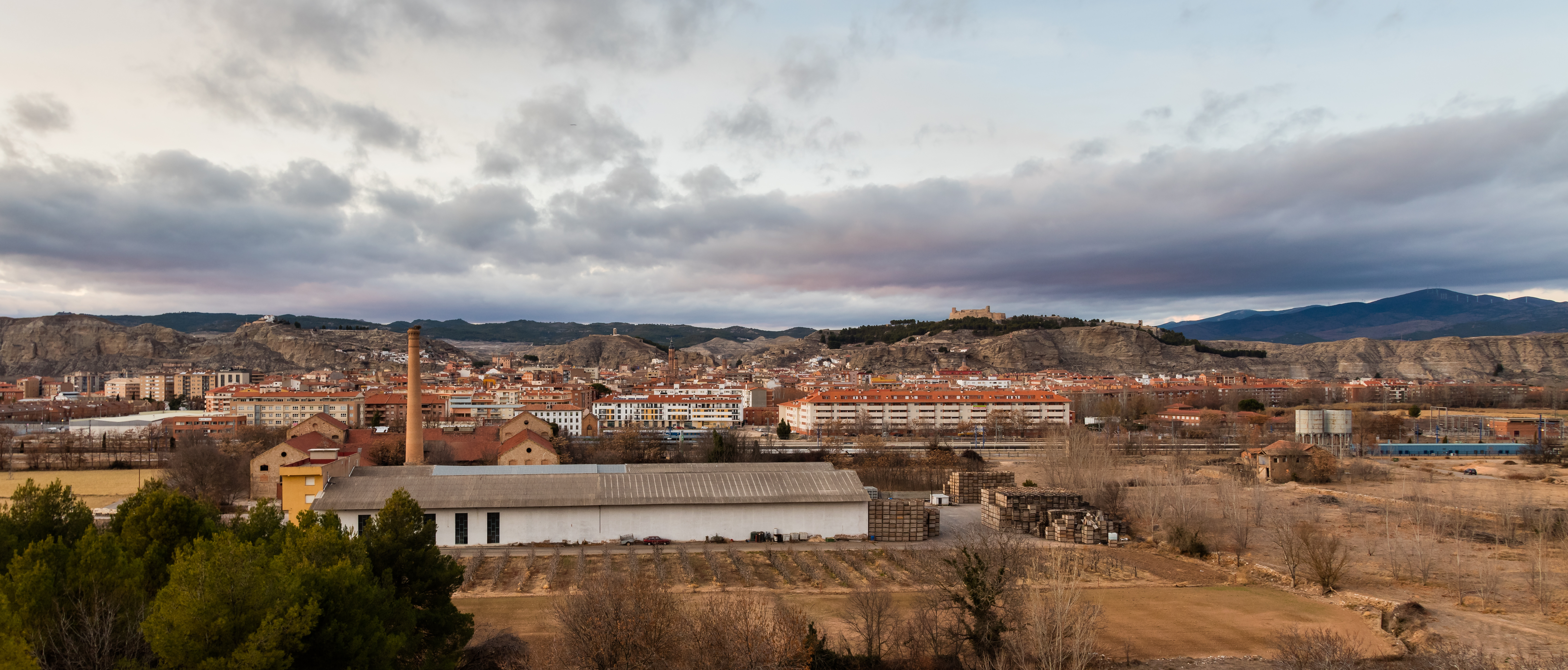 View of Calatayud from Pine Forte of Ostáriz, Spain